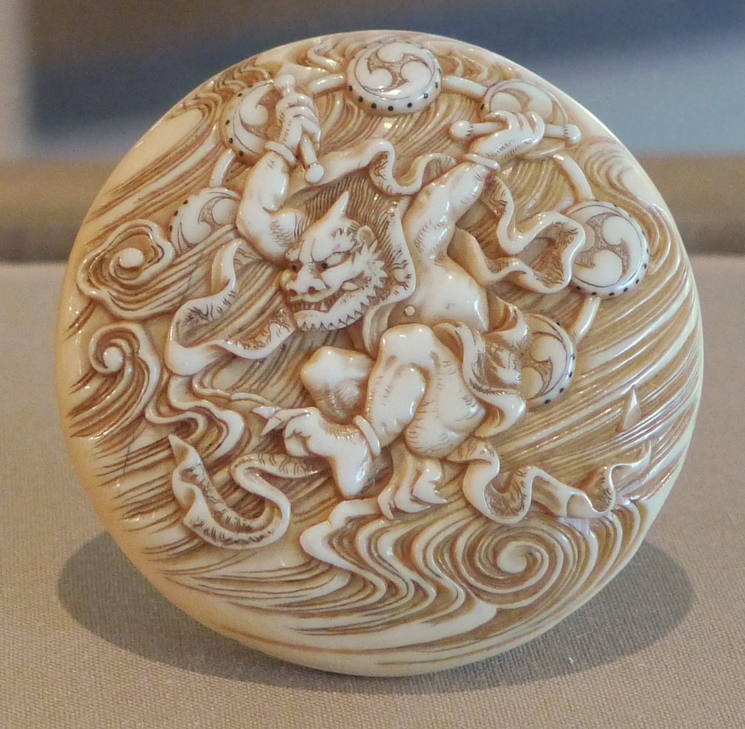 Kaigyokusai (Masatsugu) — Raijin, God of Thunder — netsuke — LACMA